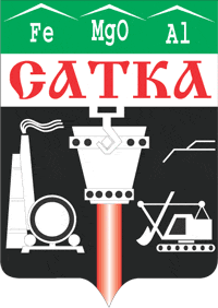 Satka (Chelyabinsk oblast), coat of arms (1983)